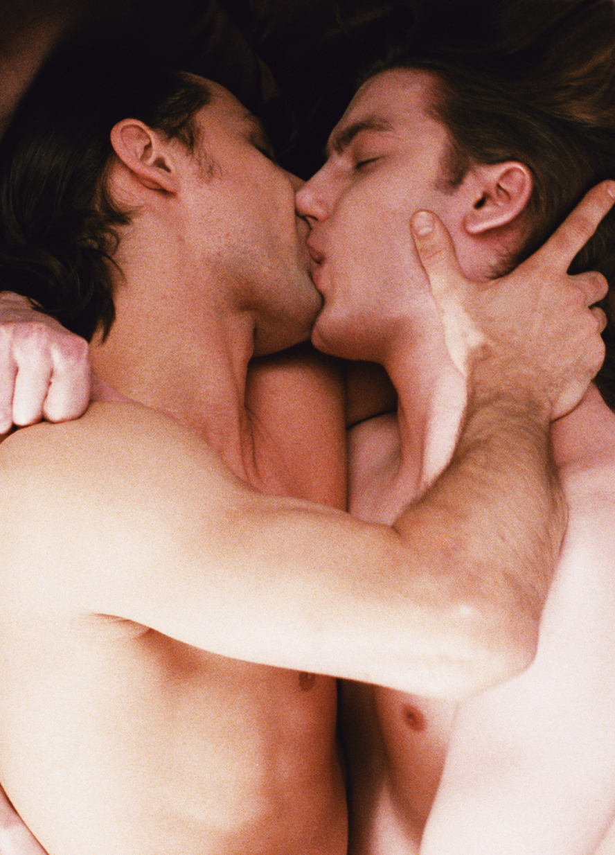 Male to male kiss scene from The Cell